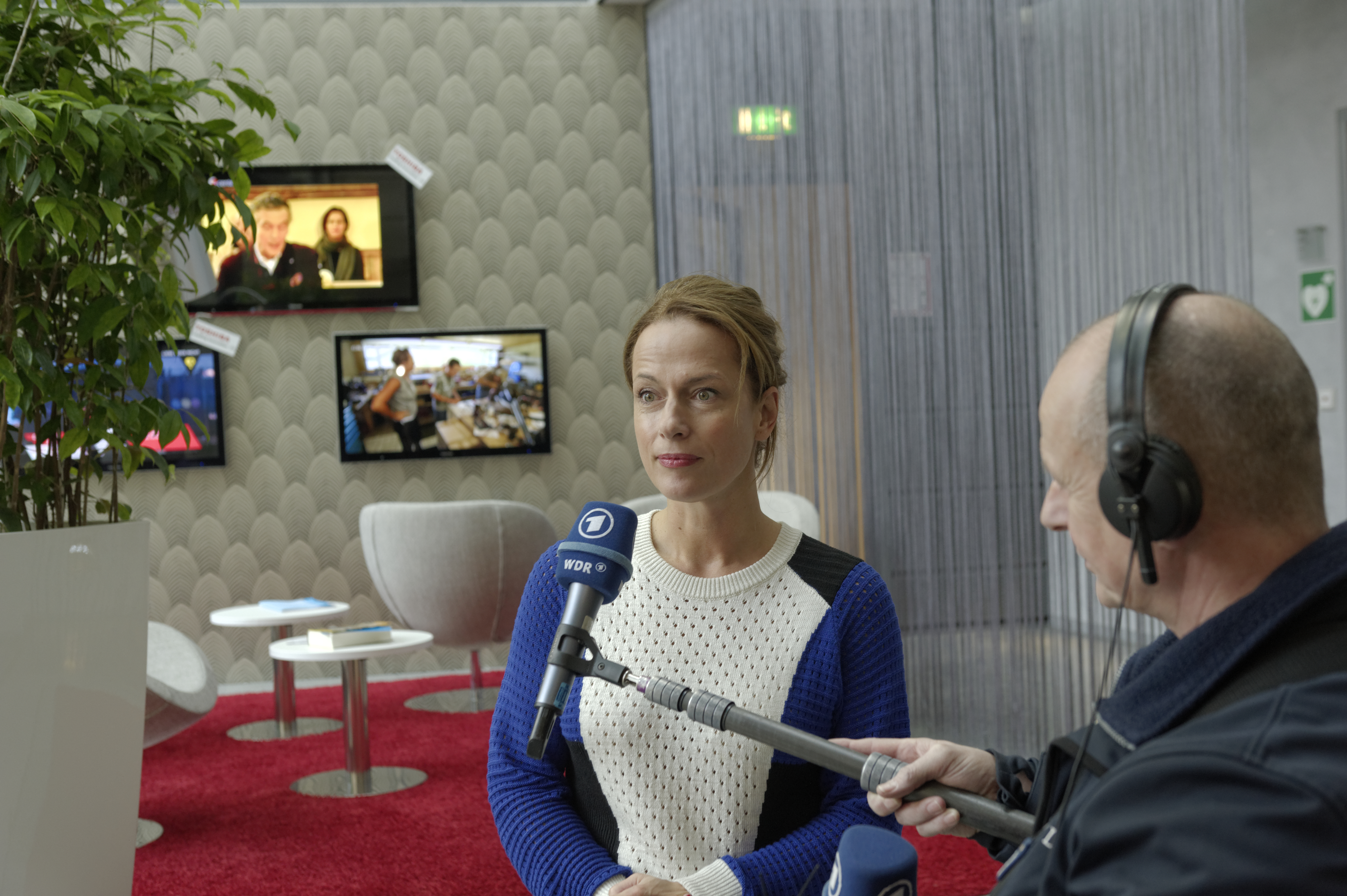 Claudia Michelsen at the announcement press conference of the Grimme prize 2013, beeing interview by the WDR broadcasting station